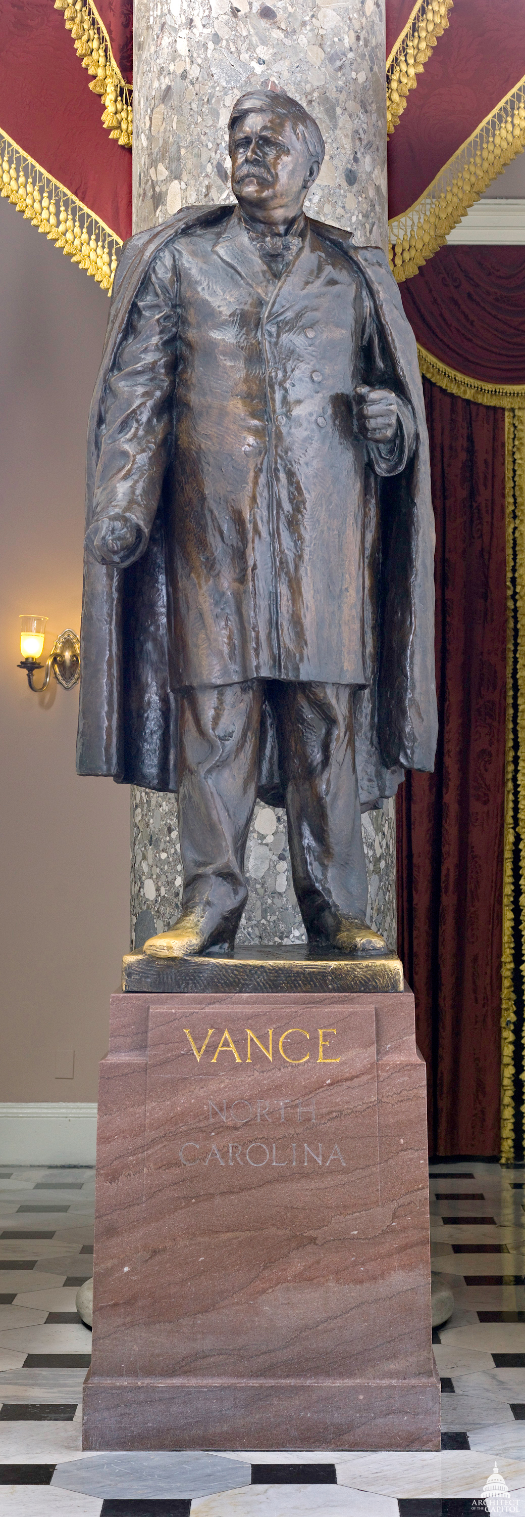 Zebulon Baird Vance (1830-1894) North Carolina Bronze by Gutzon Borglum Given in 1916 National Statuary Hall U.S. Capitol This official Architect of the Capitol photograph is being made available for educational, scholarly, news or personal purposes (not advertising or any other commercial use). When any of these images is used the photographic credit line should read “Architect of the Capitol.” These images may not be used in any way that would imply endorsement by the Architect of the Capitol or the United States Congress of a product, service or point of view. For more information visit